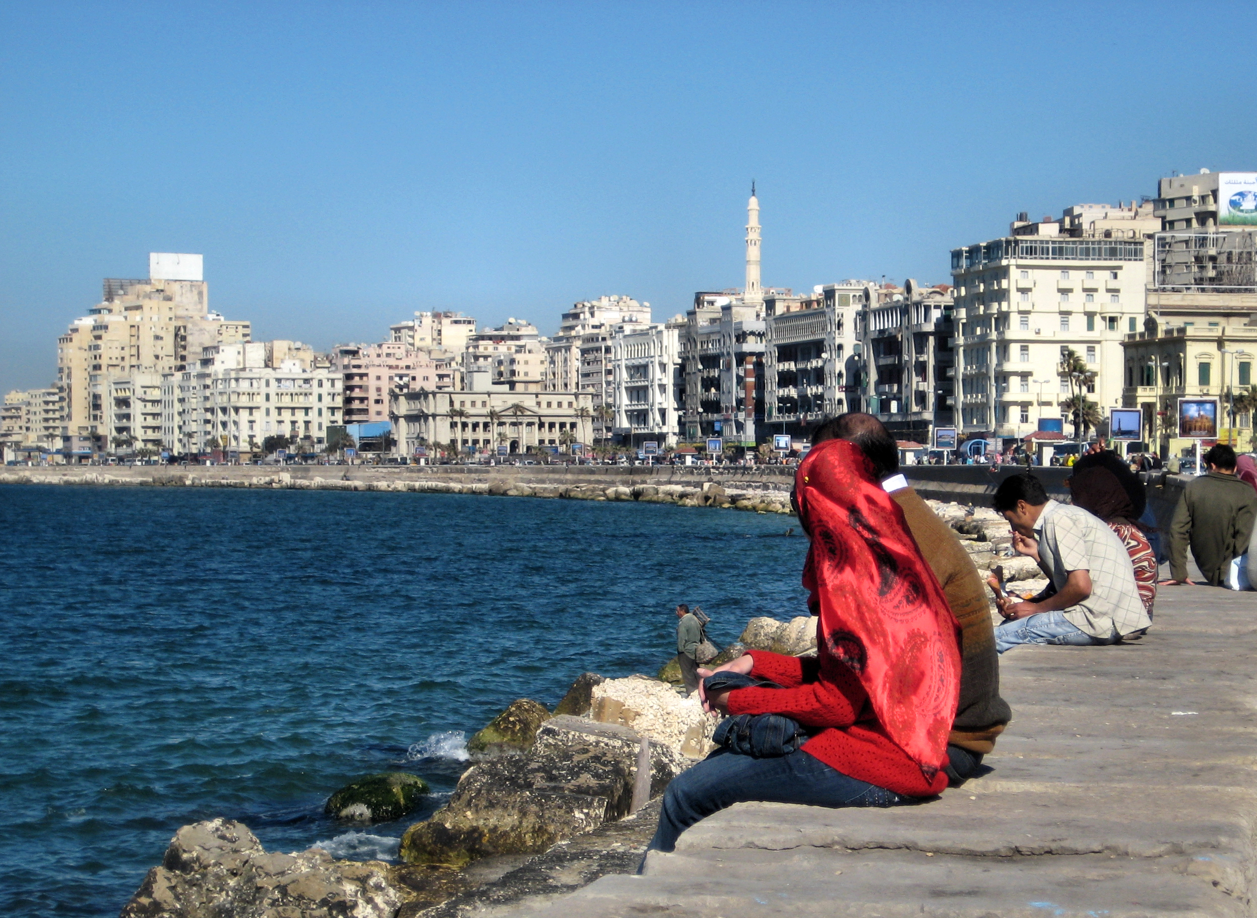 Alexandria Waterfront